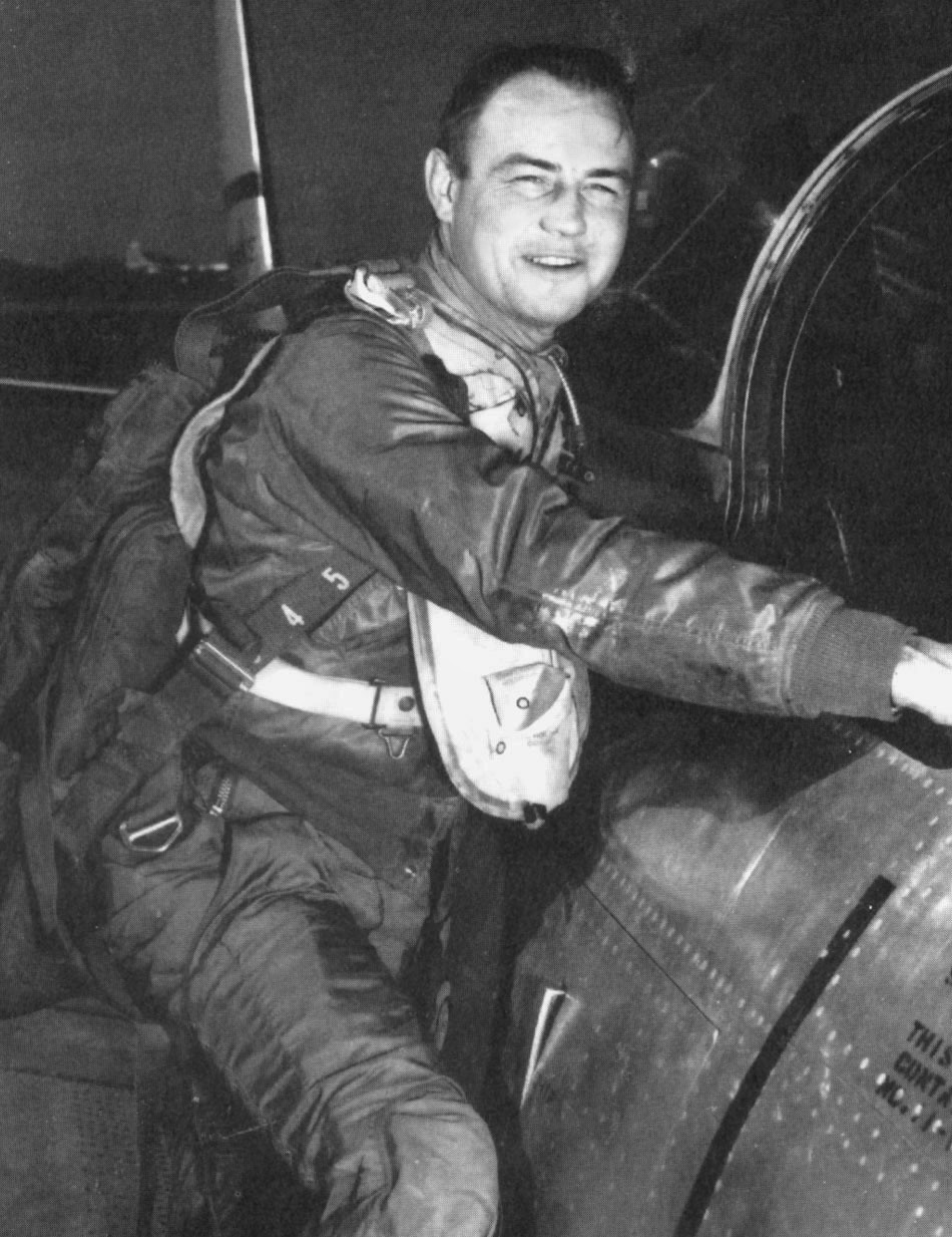 James P. Hagerstrom in Osan, Korea with his F-86 Sabre jet